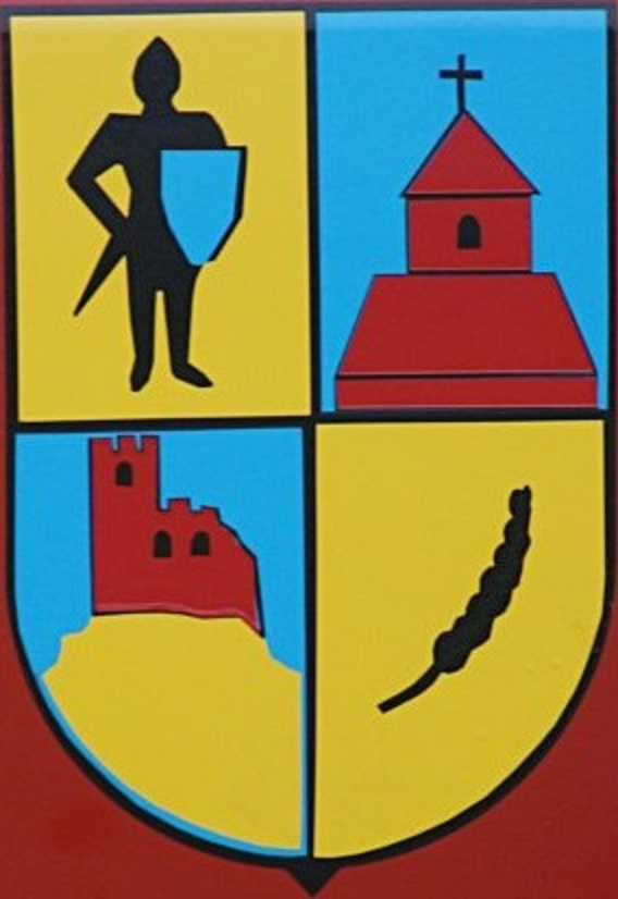 Herb wsi Rząsiny